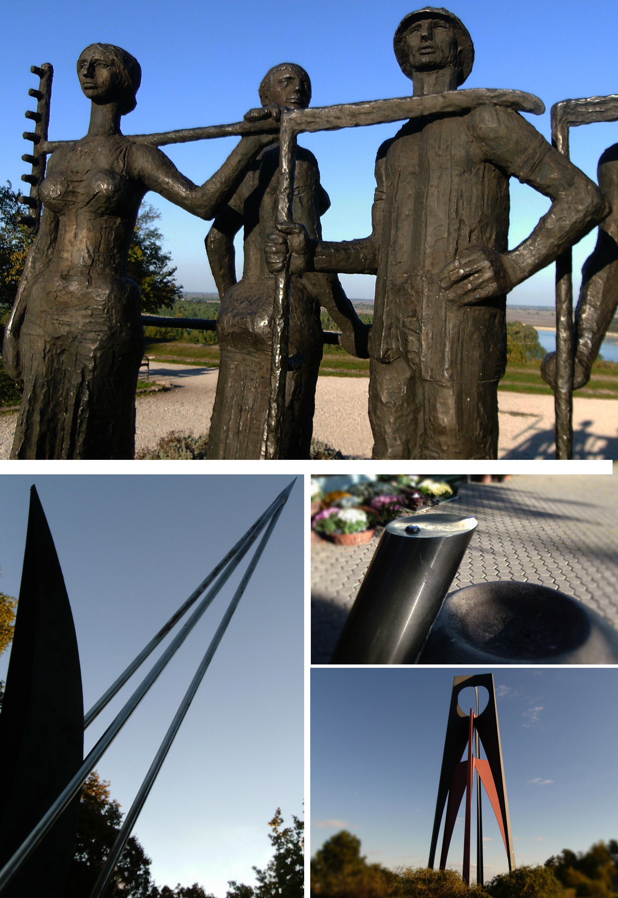 Dunaujvaros, Hungary